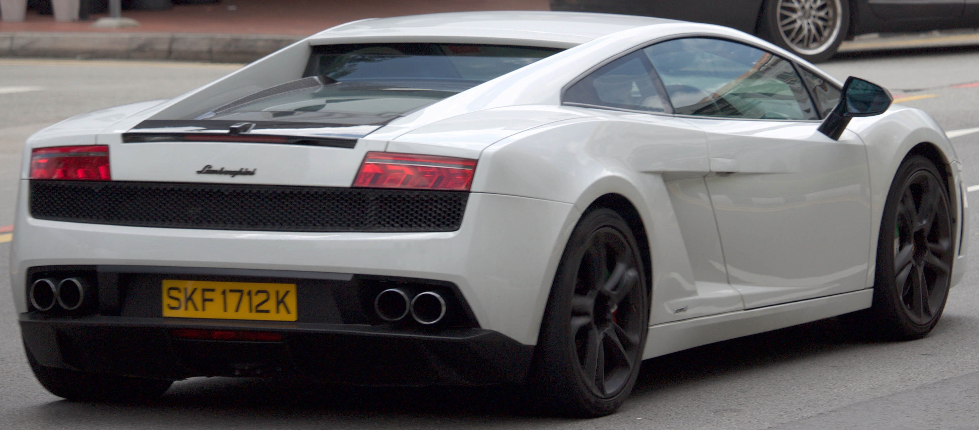 2010 Lamborghini Gallardo (L140) LP550-2 coupe. Photographed in Singapore. Vehicle registration enquiry resultsJurisdictionSingaporeRegistrationSKF1712KChassis codeZHWGE52Z5ALA09926Engine codeCEH003535Year of manufacture2010